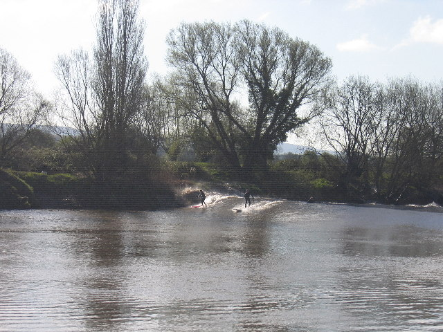 The Severn Bore, downstream from Minsterworth.